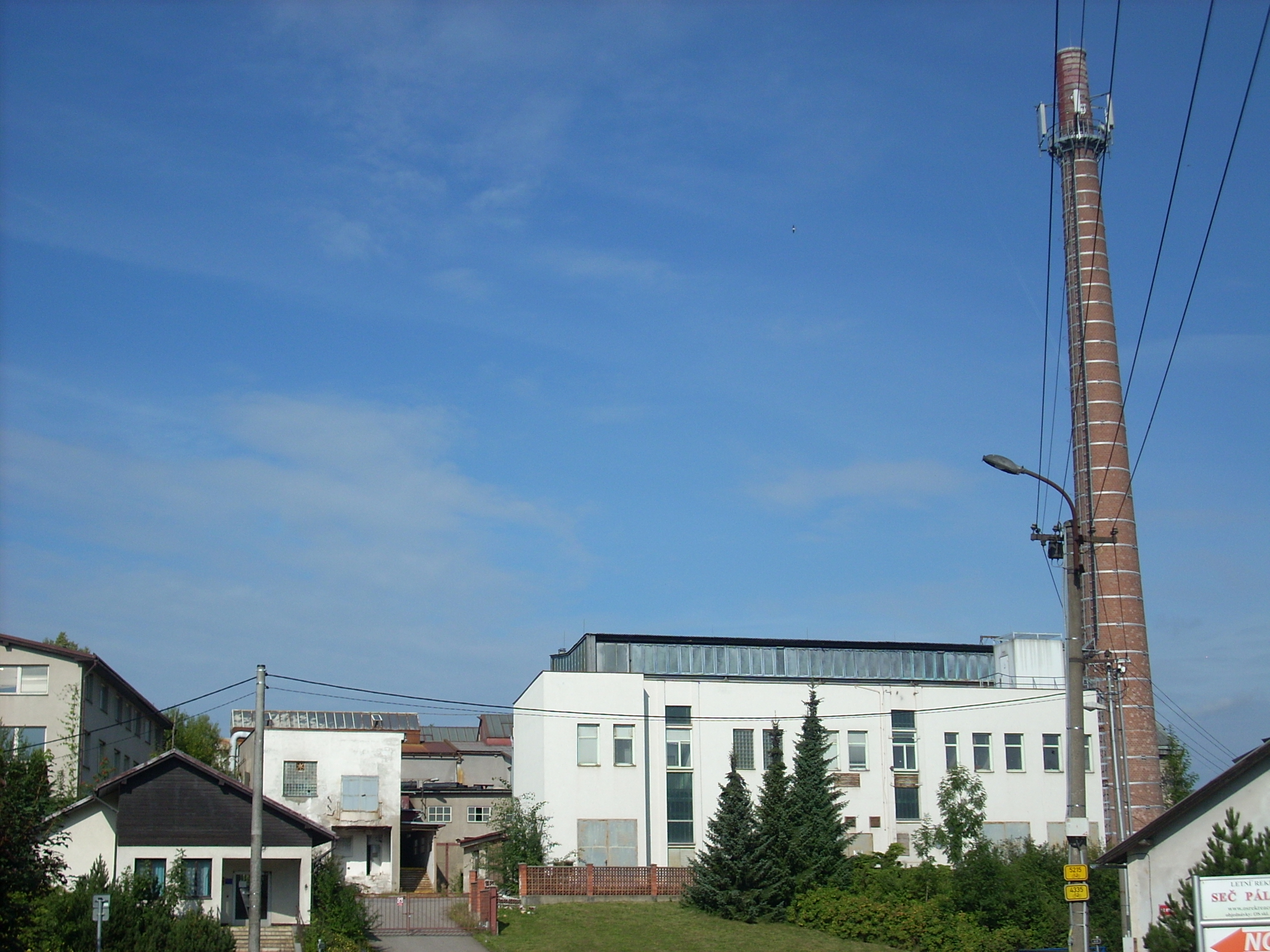 Dobronín, glass factory